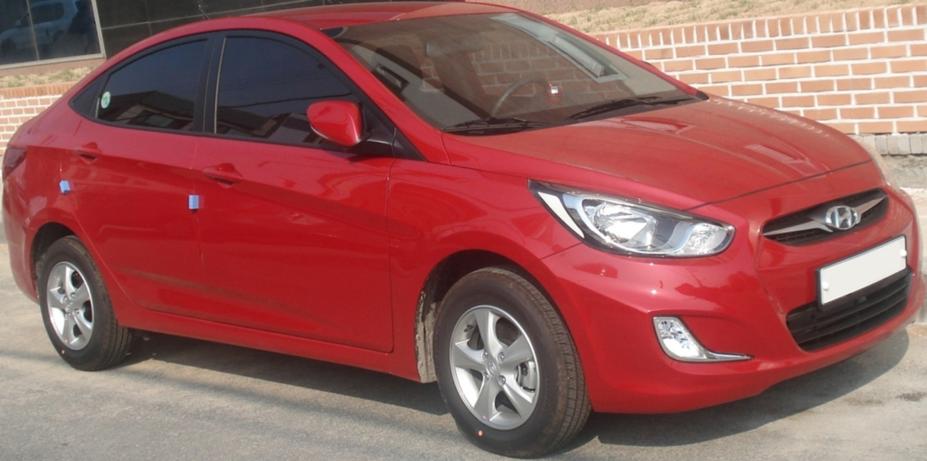 Hyundai Accent